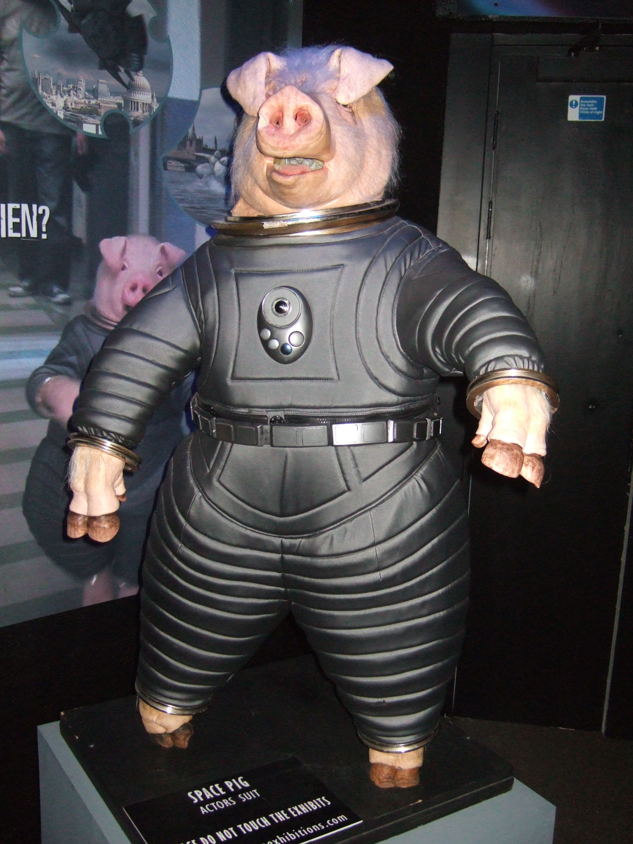 Space pig from Doctor Who Doctor Who Experience